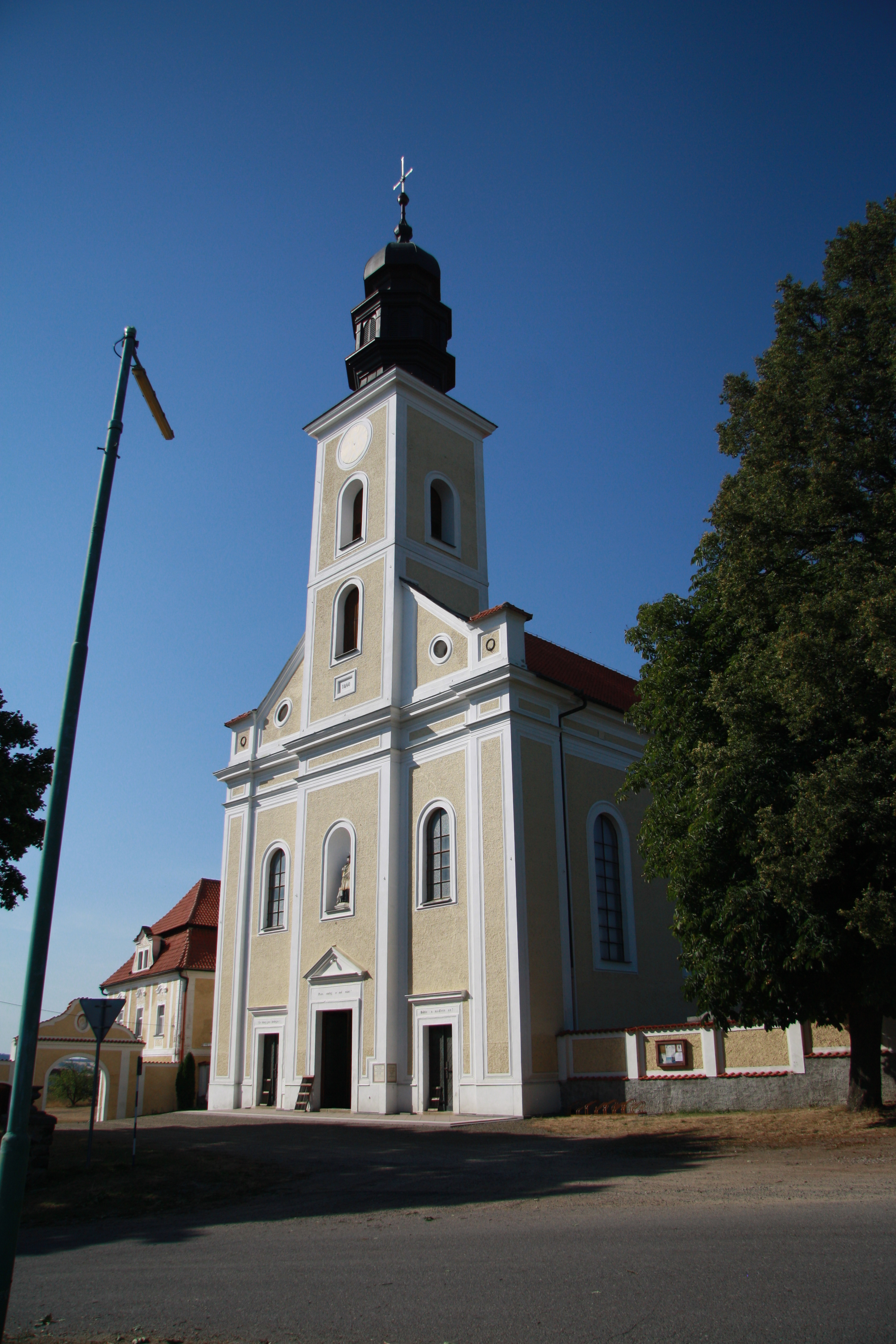 Overview of Church of Saints Peter and Paul in Velký Újezd, Kojatice.